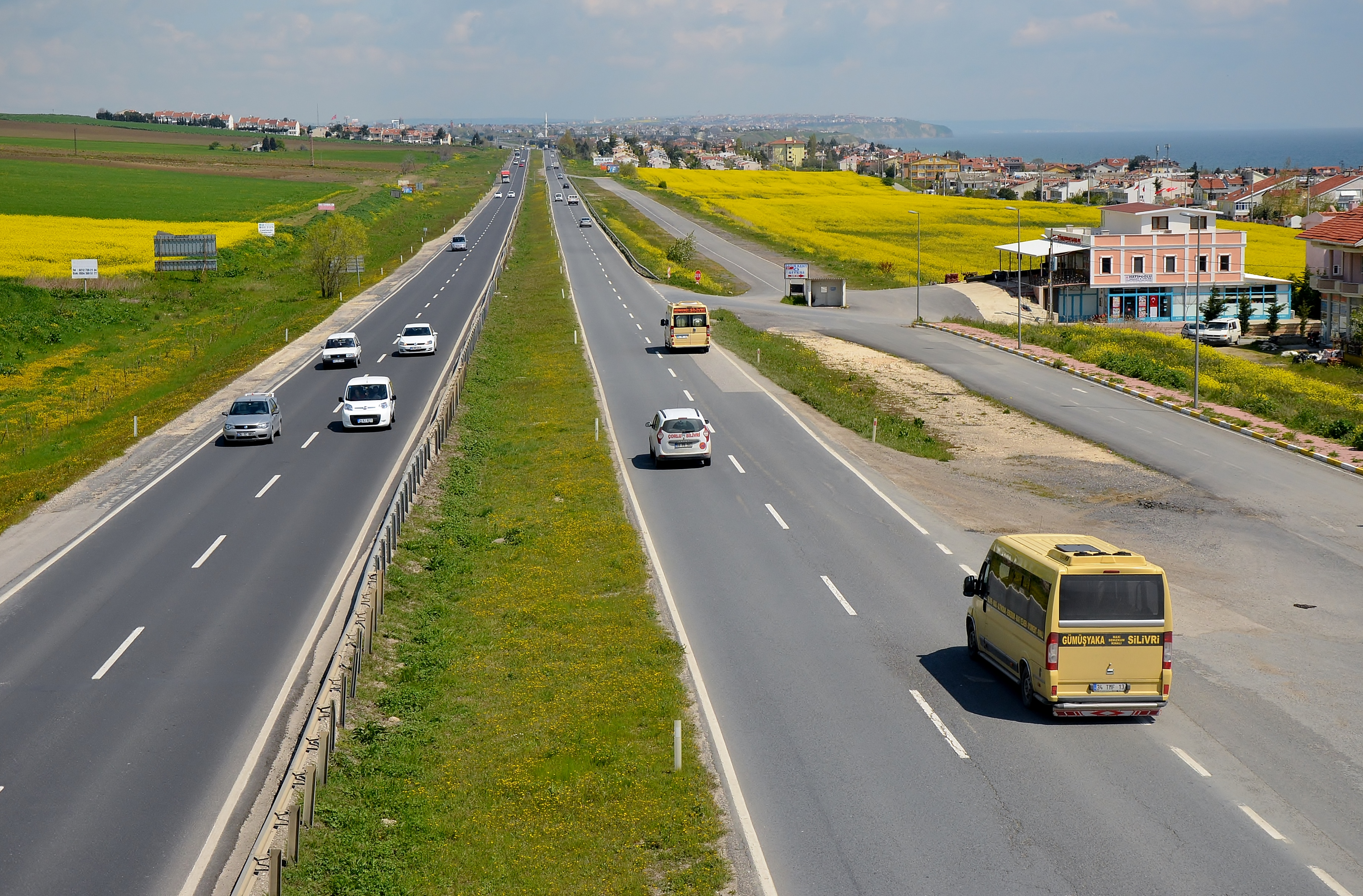 State road D-100 in Silivri, Istanbul Turkey